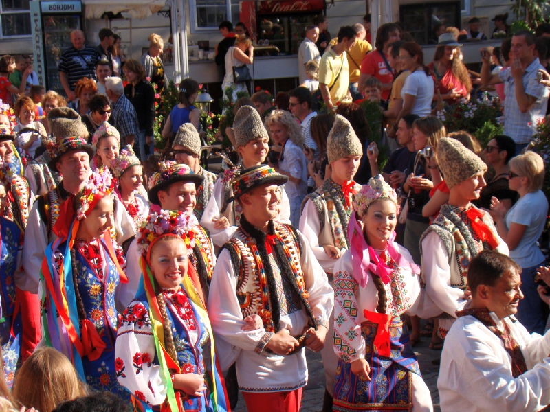 International Folklore Festival Etnovyr in Lviv